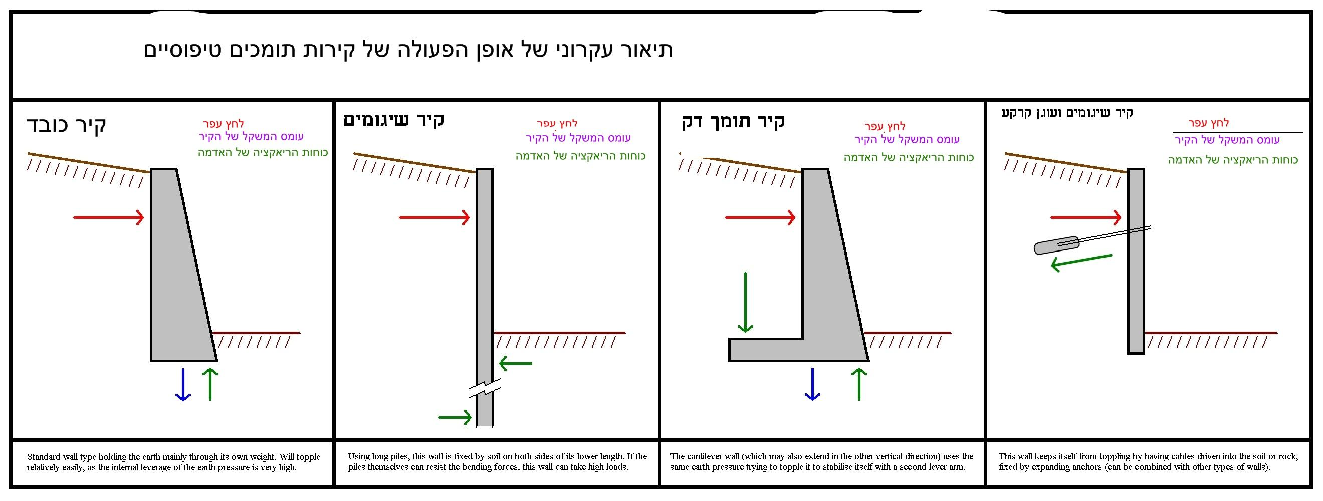 Cantilavar walls in hebrew